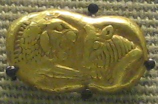 Gold coin of Croesus, Lydian, around 550 BC, from modern Turkey.